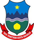 Lambang (Coat of Arms) of Kabupaten (Regency) of Garut, provinsi Jawa Barat (West Java Province), Indonesia